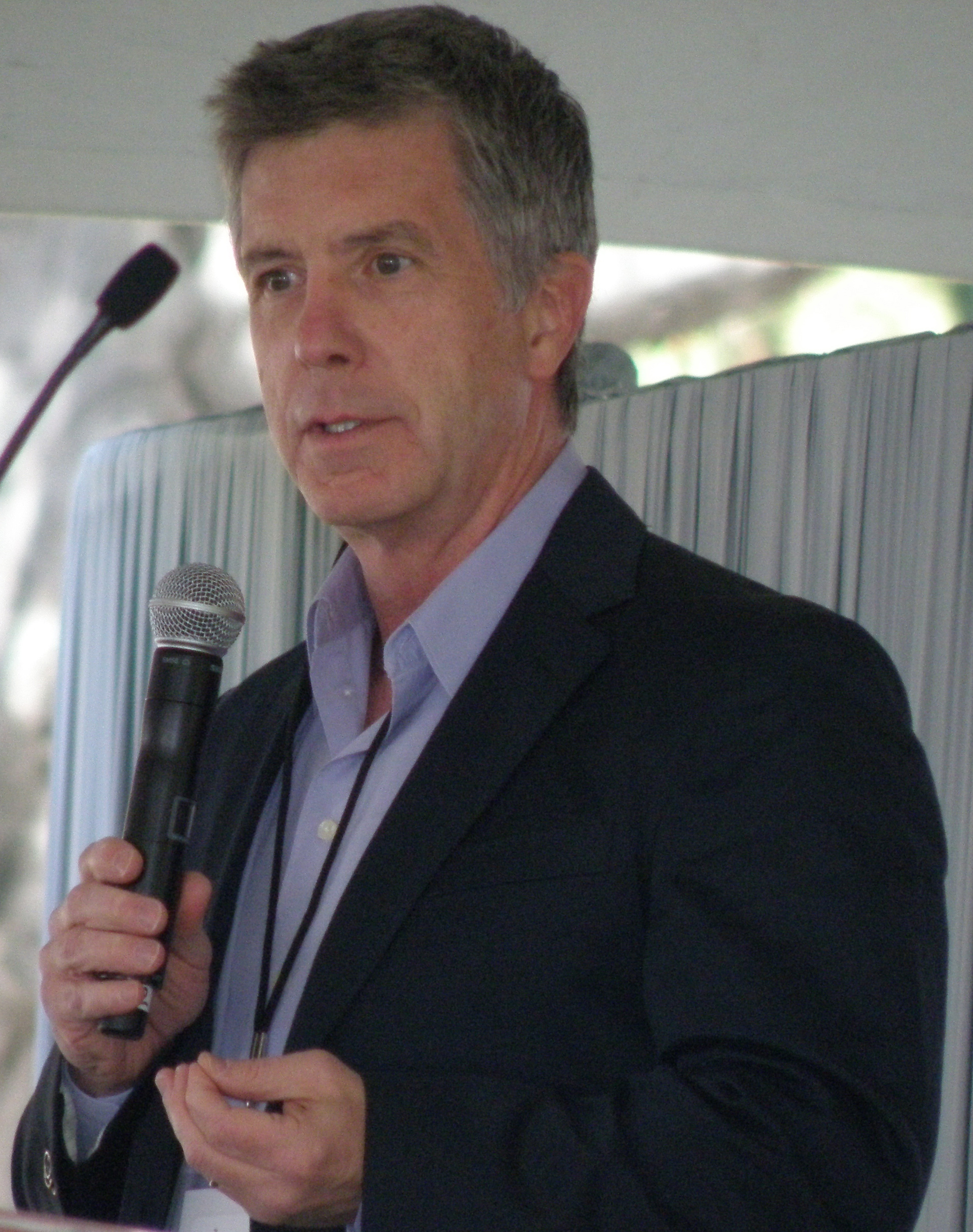 Tom Bergeron at the Los Angeles Times Festival of Books.